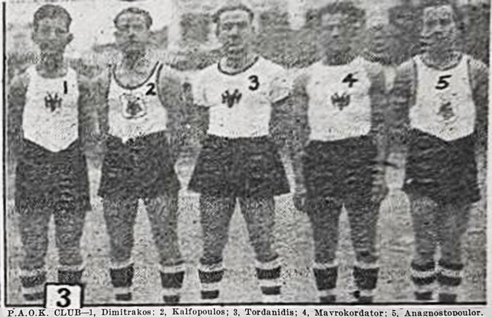 PAOK BC in 1927